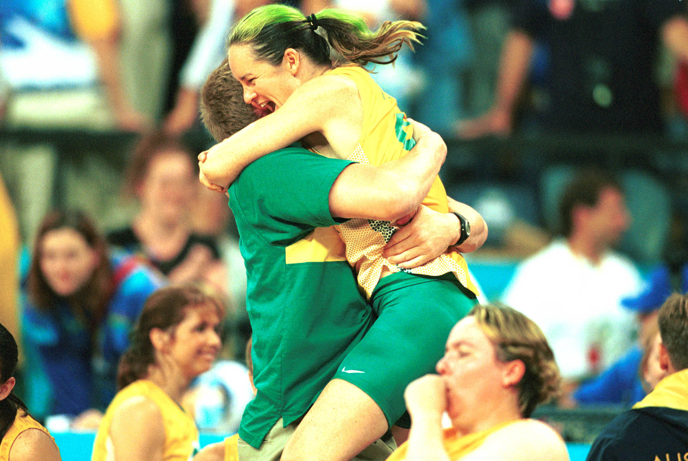 Australian wheelchair basketballer Liesl Tesch celebrates during 2000 Sydney Paralympic Games match